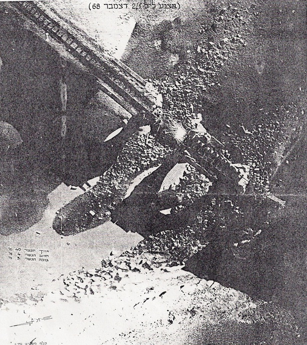 A railway bridje in Jordan after being hit by Mazlef 250